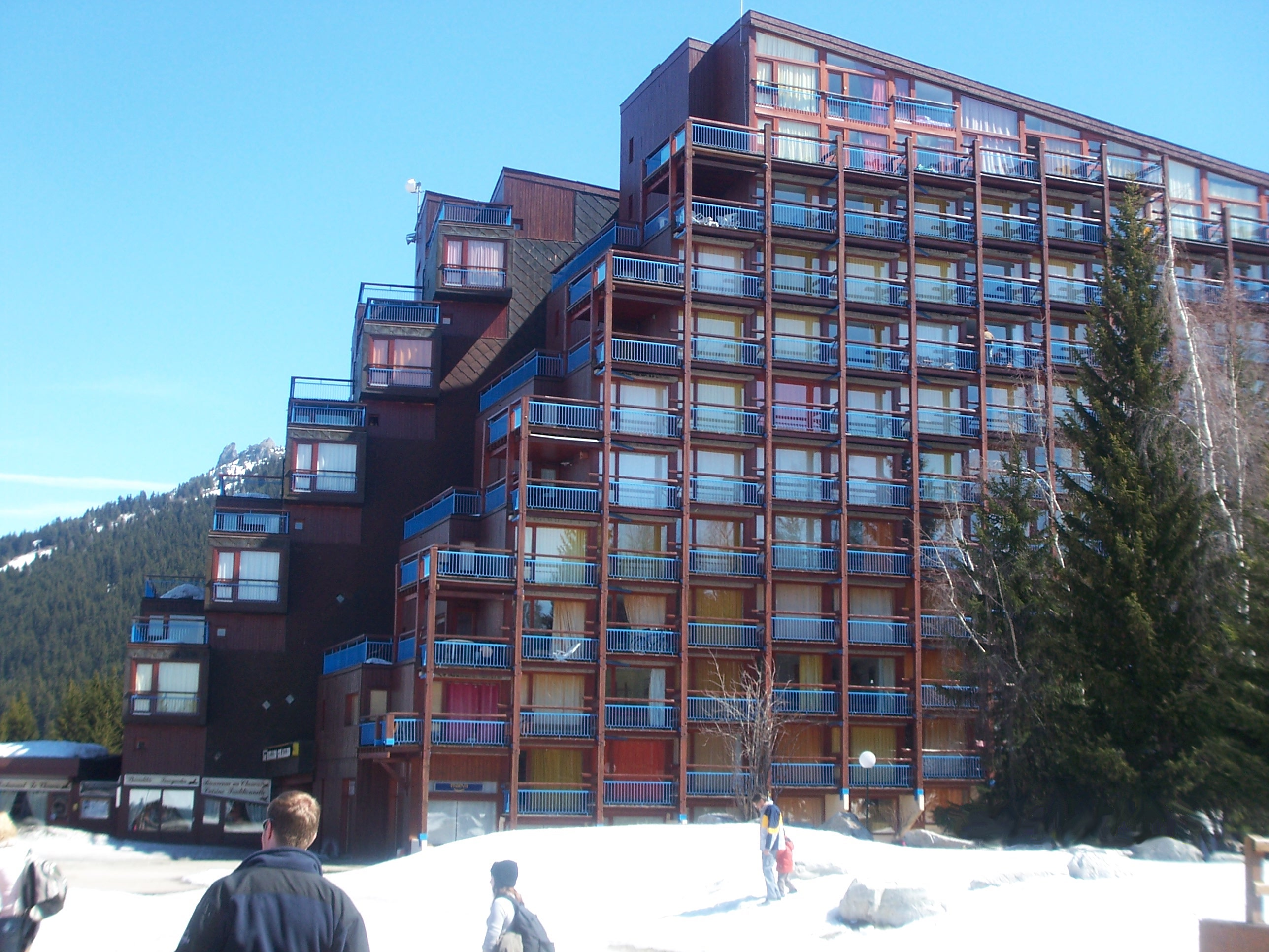 View of the modernist apartments in Les Arcs 1800, design by Charlotte Perriand, heavily influenced by Le Corbusier.